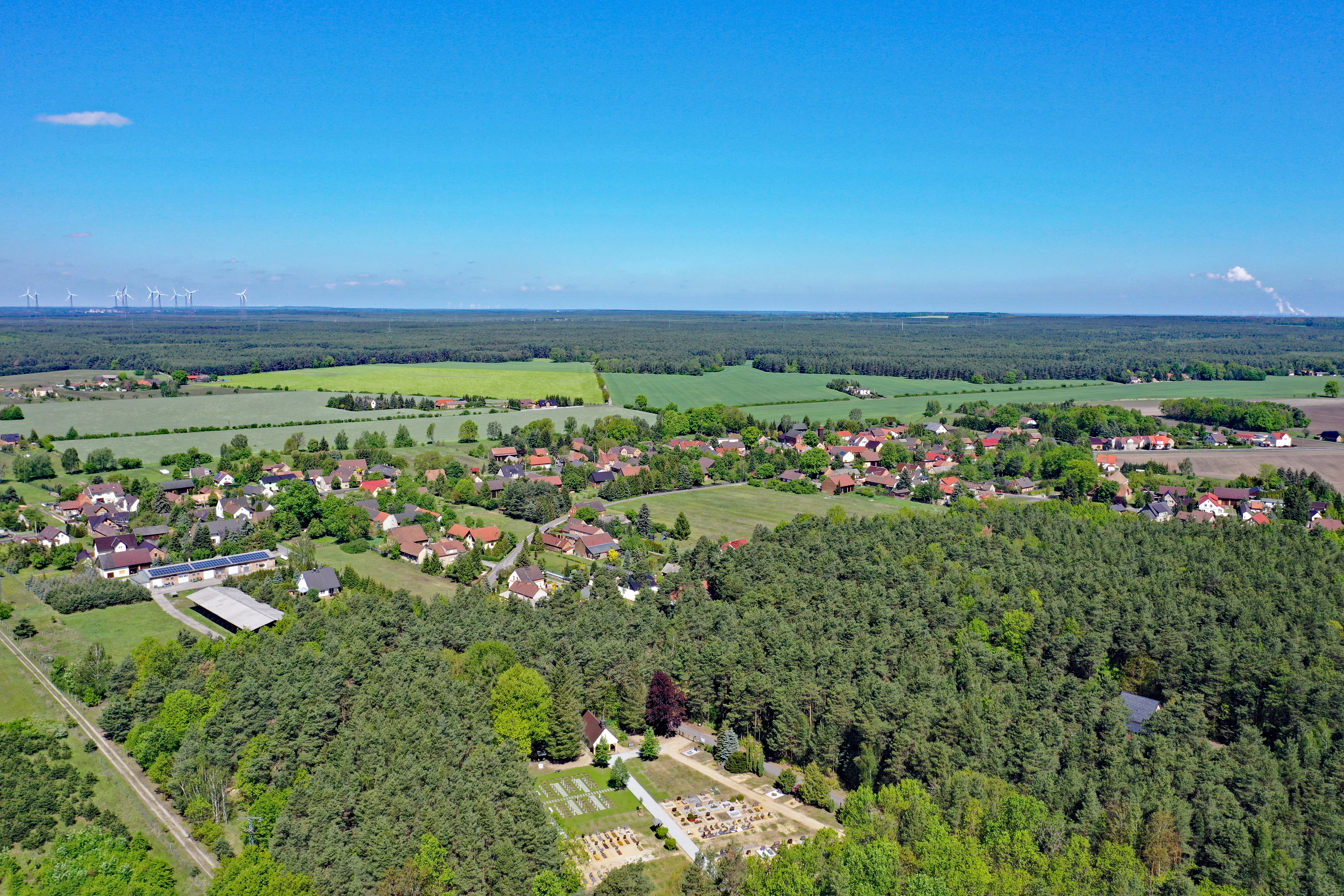 Rohne (Schleife, Saxony, Germany) Hornjoserbsce: Powětrowy wobraz Rownoho